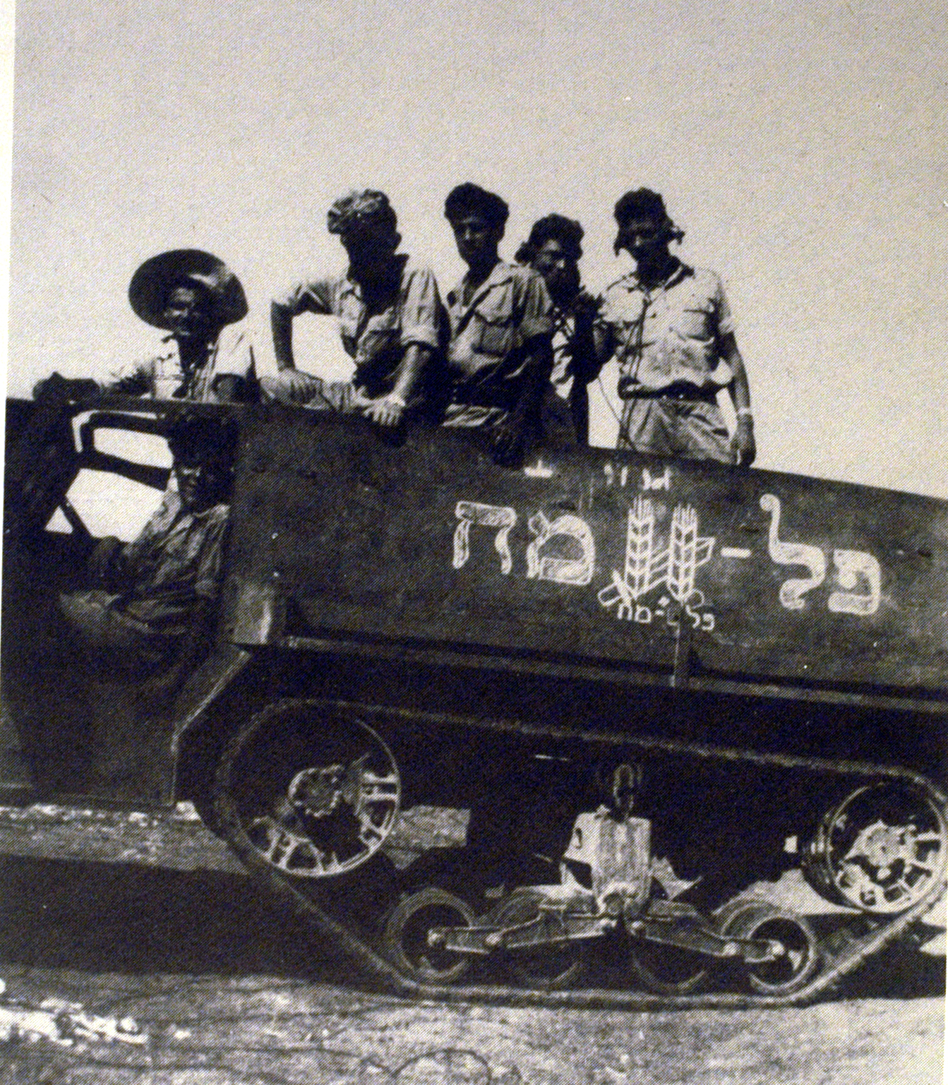 Members of the Palmach in an American-built M3 half-track during Operation 'Yoav' in the Negev.